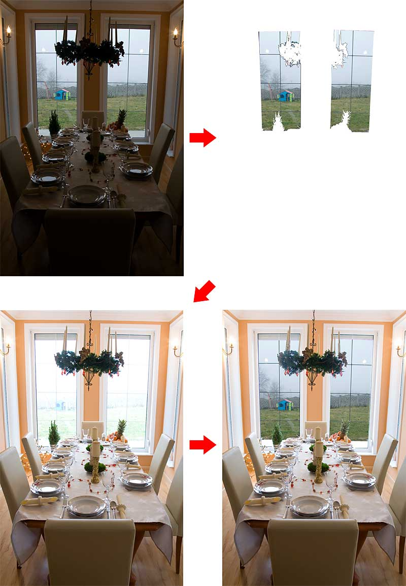 Dynamic Range Increase